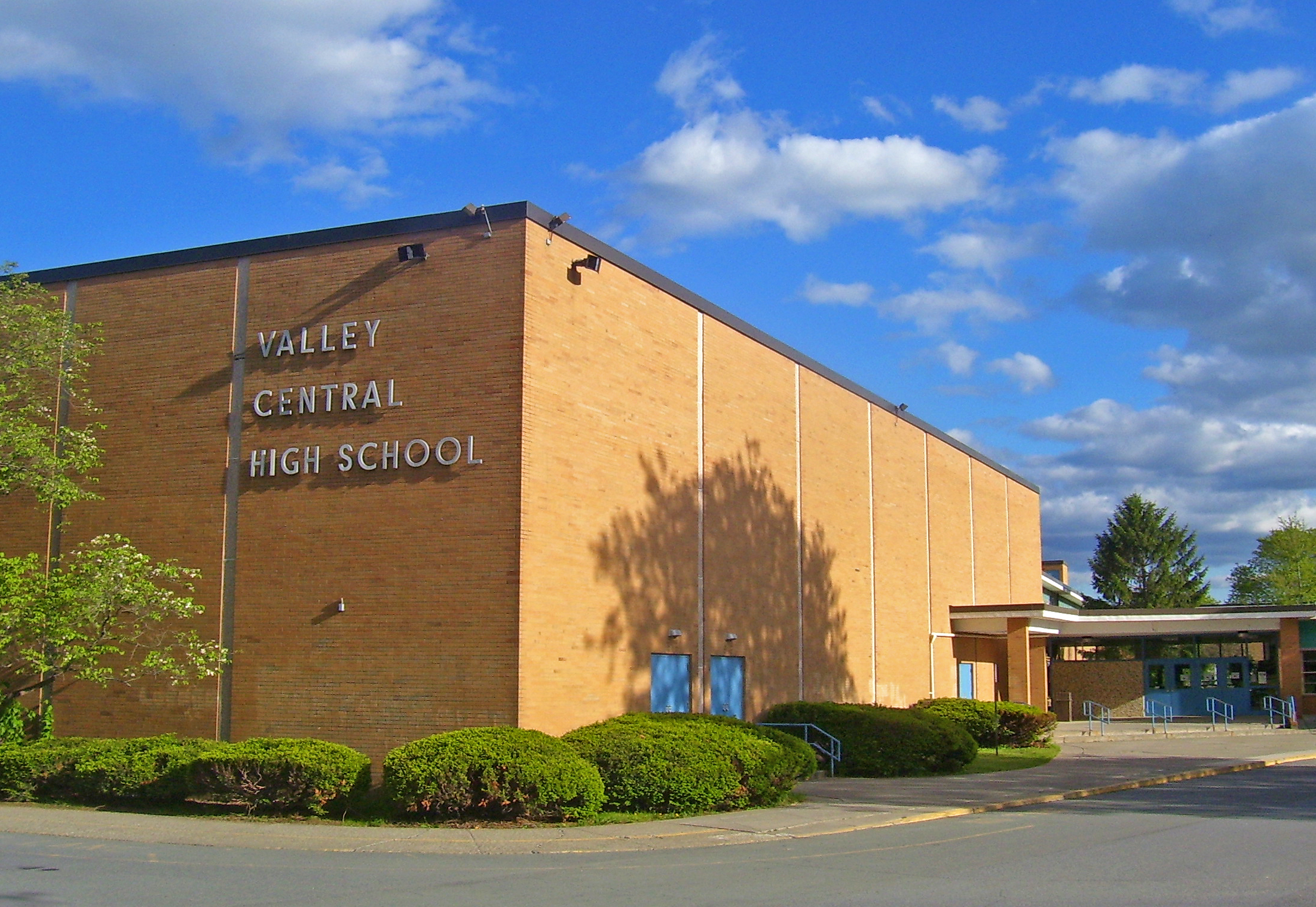 Valley Central High School, Montgomery, NY, USA